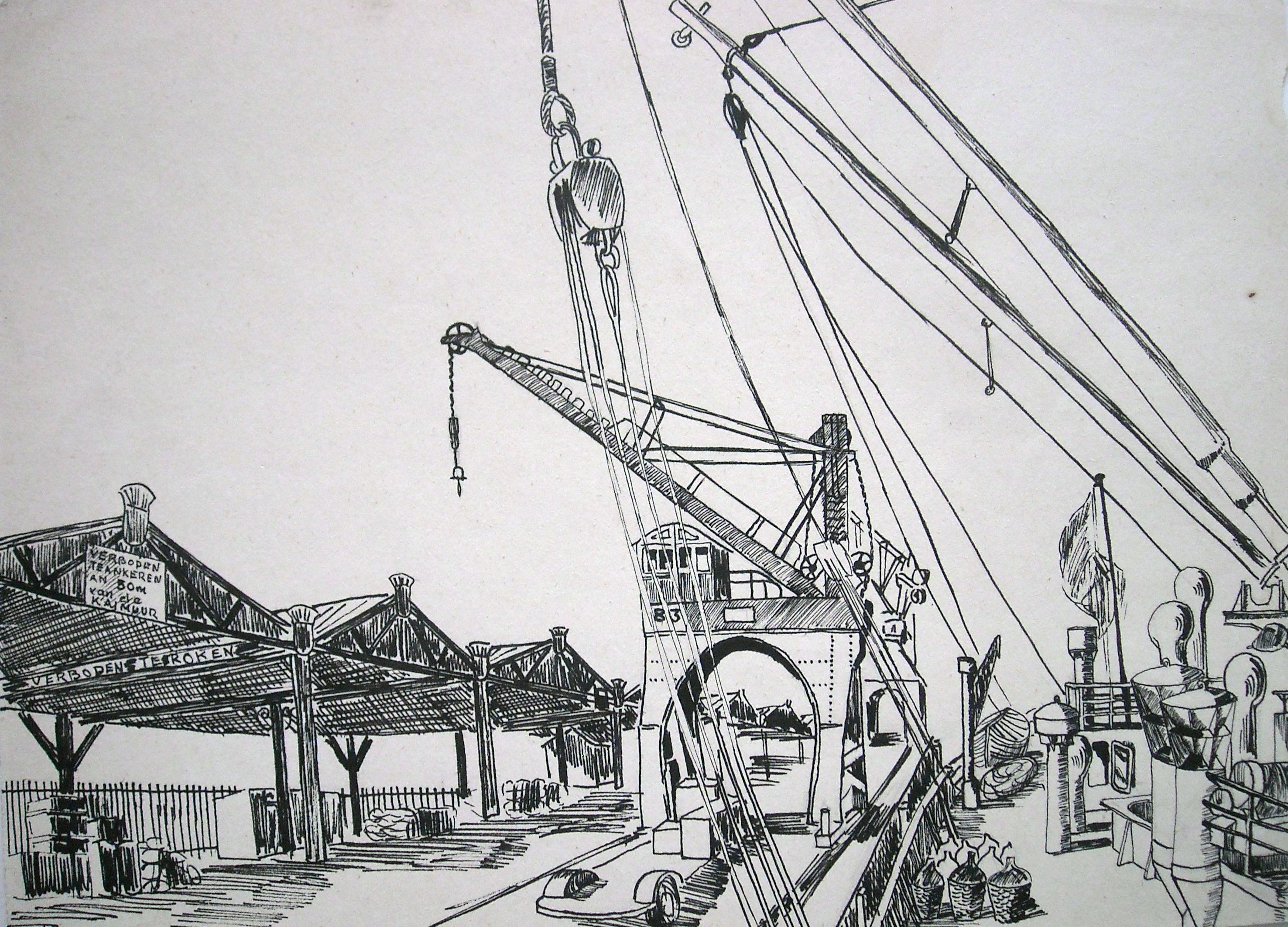 MV Lechstein looking from the starboard side of the boat deck on the stern and one of the old cranes of the Scheldequay - Antwerpen, the June 6, 1959